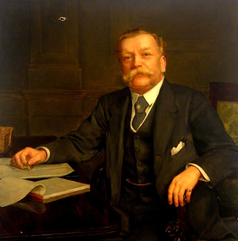 Sir Christopher Furness of Grantley Hall circa 1900